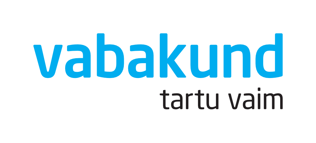 Title/logo of election coalition for municipal elections in Tartu 2013